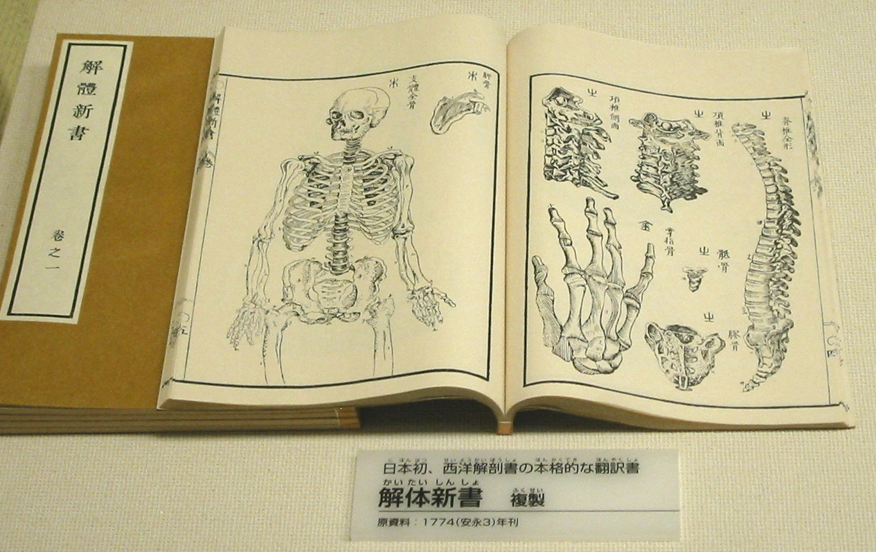 Japan's first treatise on Western anatomy, 1774. National Science Museum, Tokyo. Photograph by PHG, 2004.